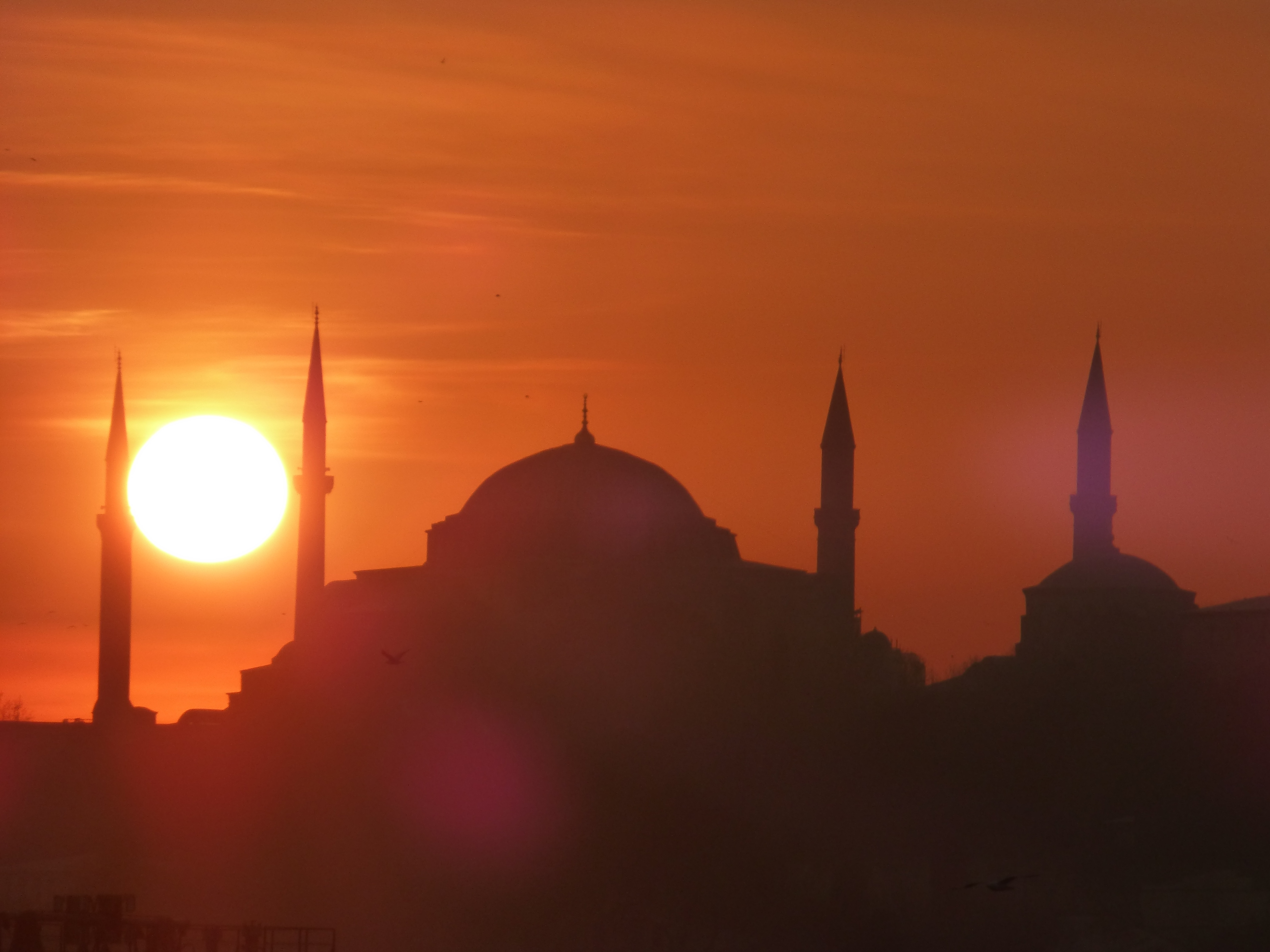 Sunset over Blue mosque